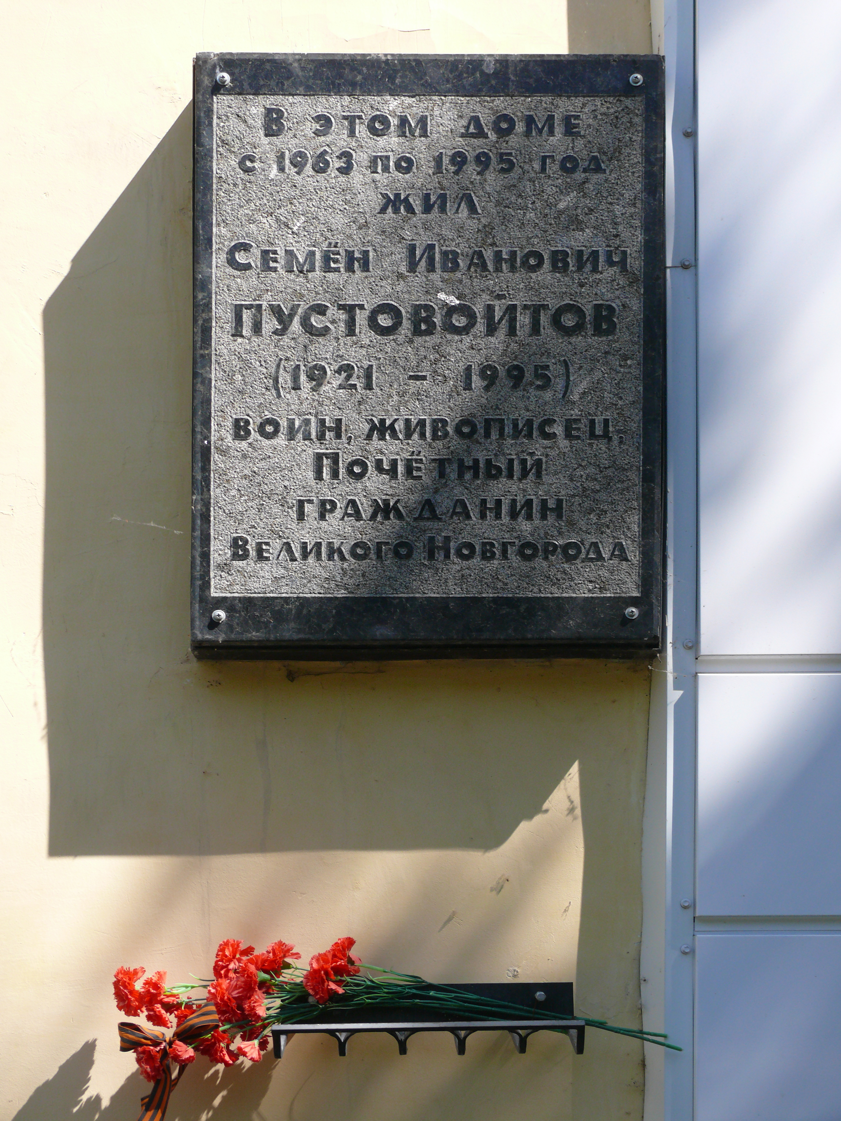 Memory plaque on the house of the artist Pustovoitov. Veliky Novgorod, Russia